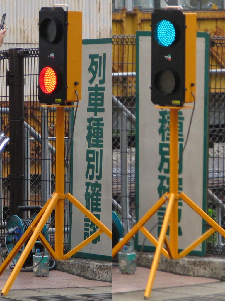 substitute apparatus for hand signal of Japan Railway (Left:stop Right:proceed) Taken at Kokubunji station, JR Chuo line